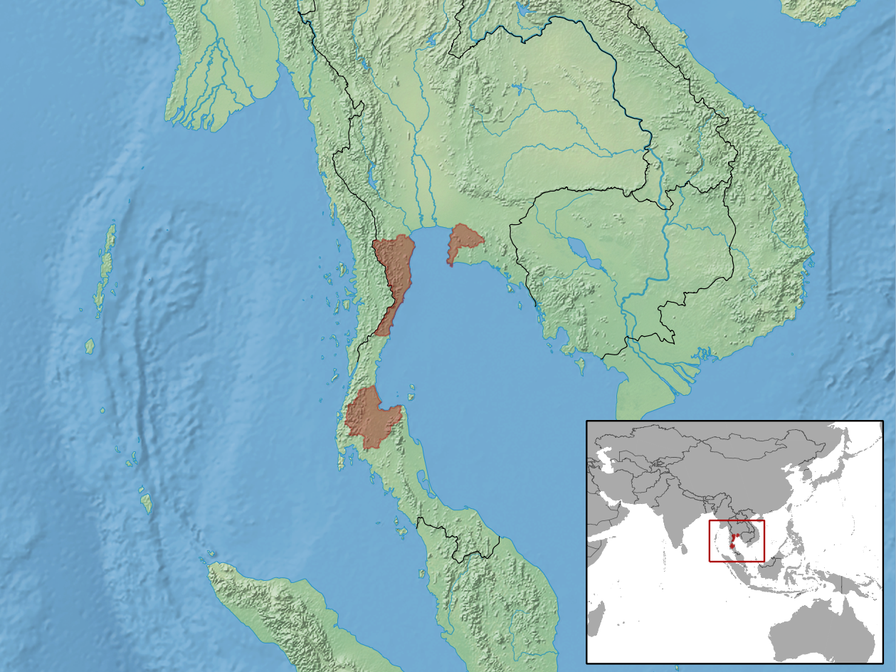 geographic distribution of Isopachys anguinoides